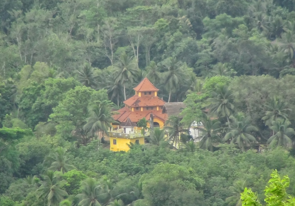 Ingiriya Religious03